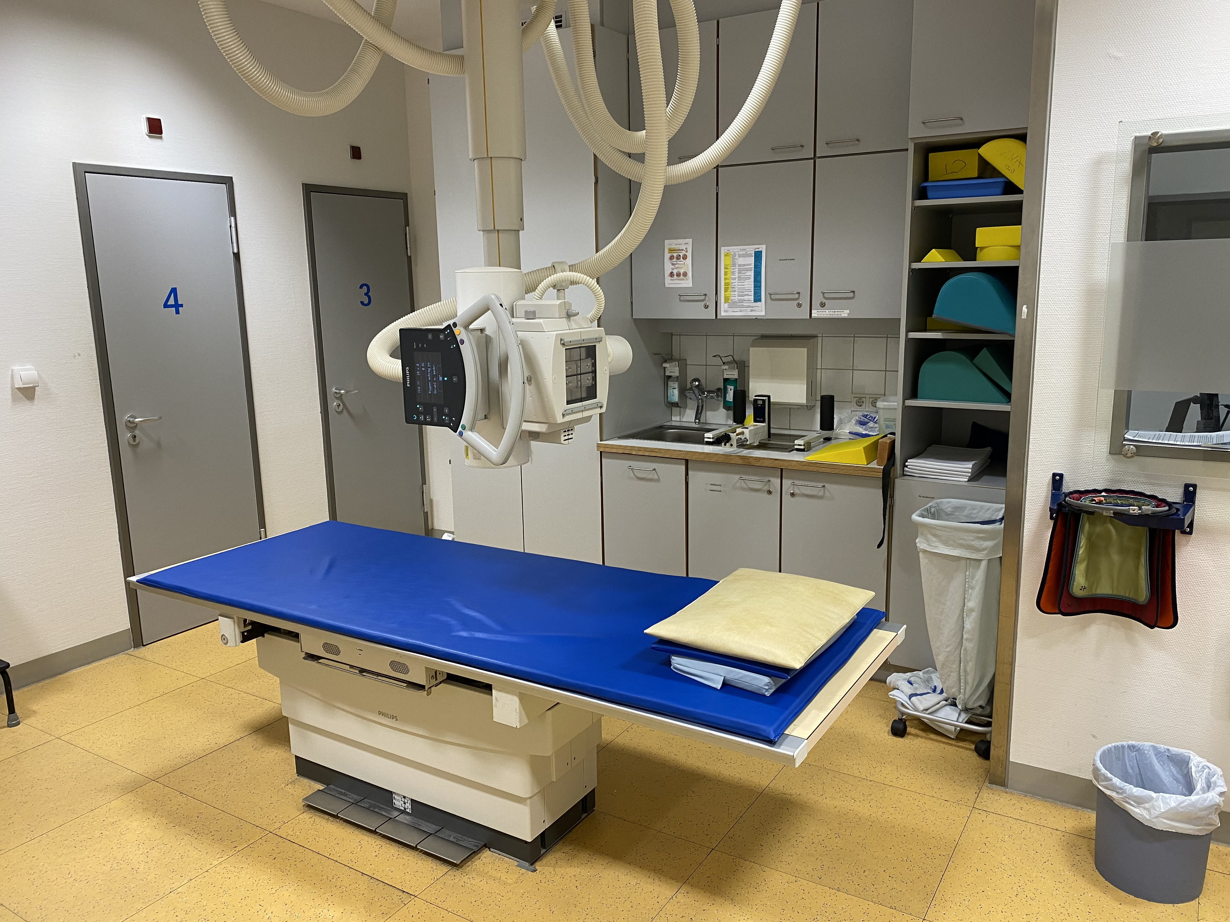 bucky table with ceiling mounted x-ray tube, Philips DigitalDiagnost M90